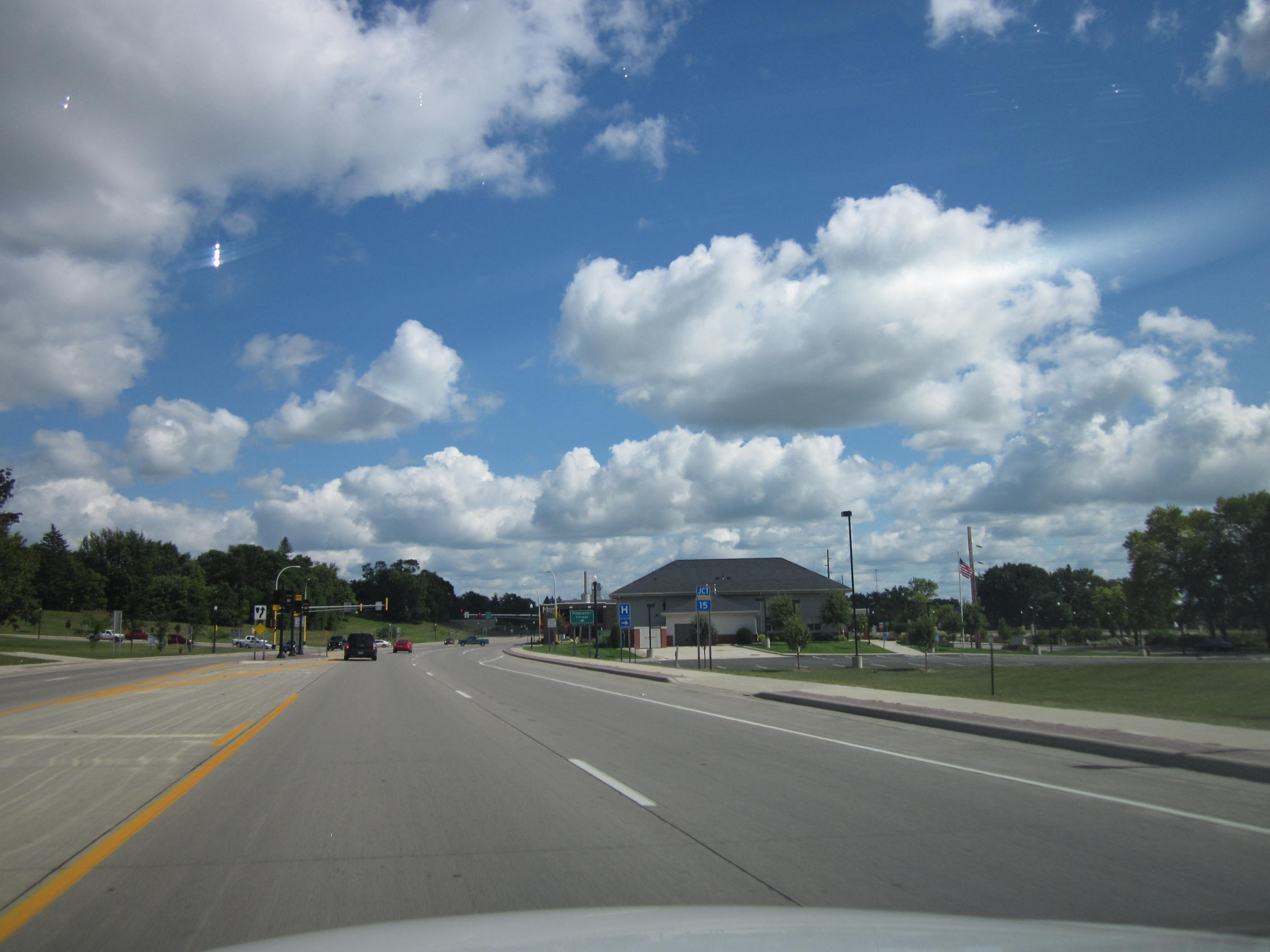 Minnesota State Highway 7 at the intersection with Minnesota State Highway 7 in Hutchinson